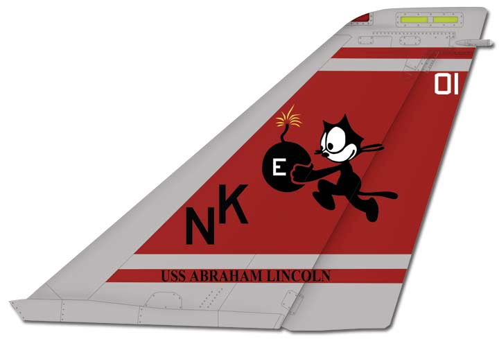 The tail of a US Navy F-14D Tomcat, belonging to VF-31, the "Tomcatters". Original created in Adobe Photoshop by Erik Hess in 2004.